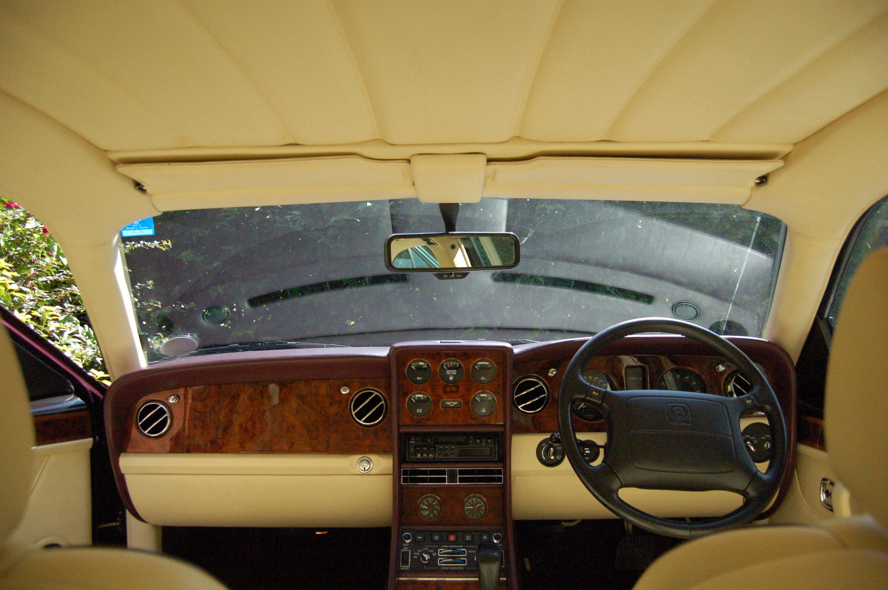 1996 Bentley Continental R interior in magnolia & wildberry